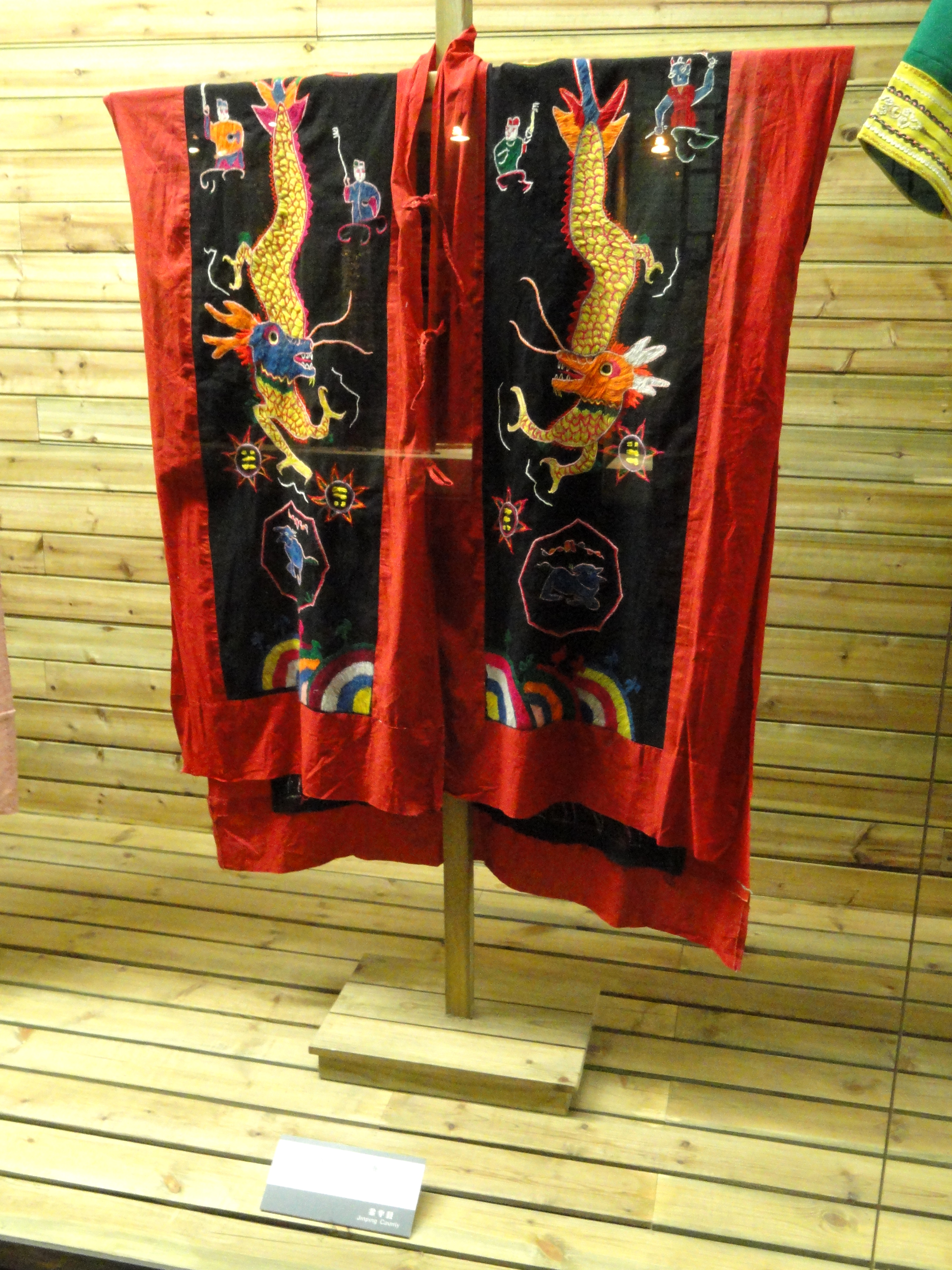 Yao taoist priest costume. Clothing exhibited in the Yunnan Nationalities Museum, Kunming, Yunnan, China.